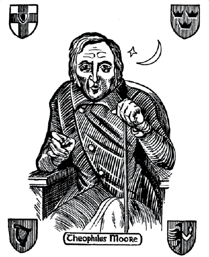 Woodcut of Theophilus Moore, creator of Old Moore's Almanac